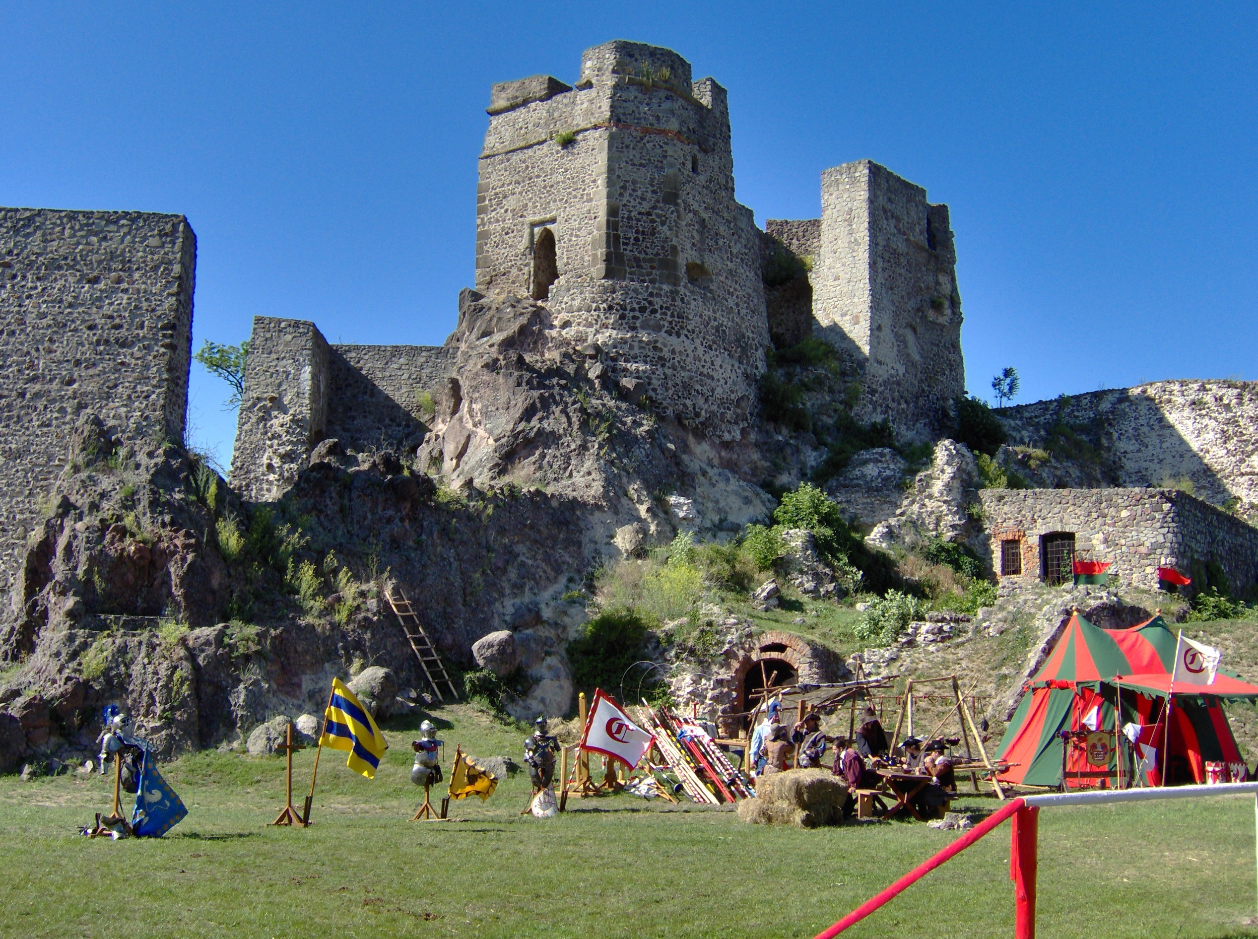 Historic castle games in Levice, 2009